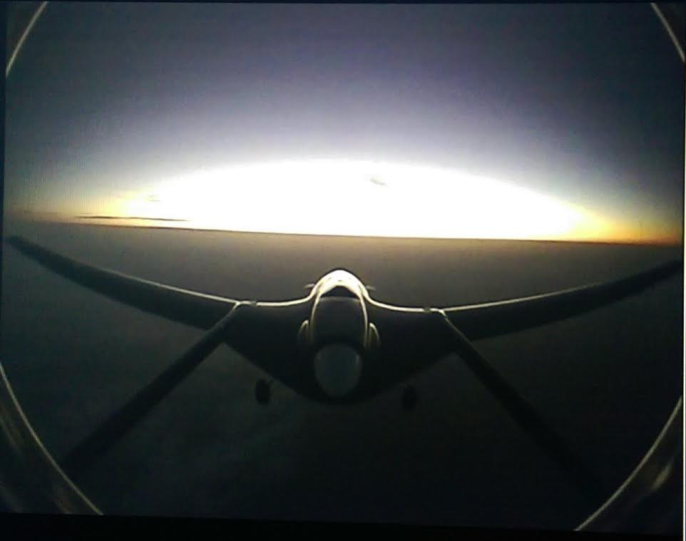 Bayraktar picture during sun rise